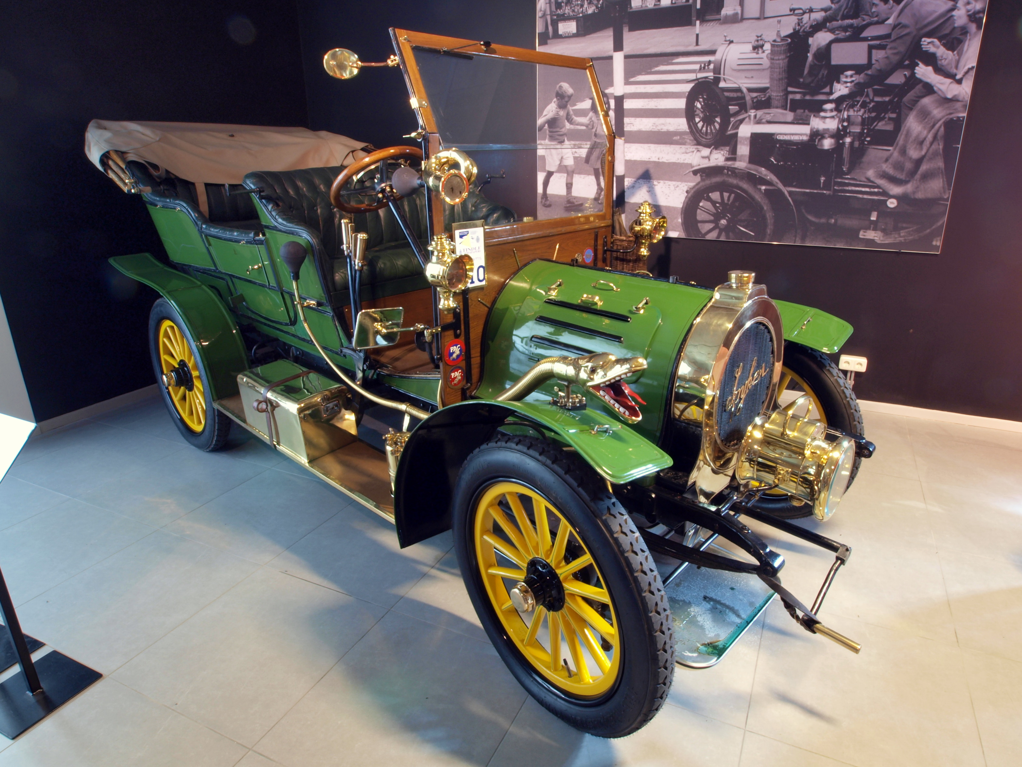 Spyker 12/16-HP. Photographed at the Louwman museum, The Netherlands.